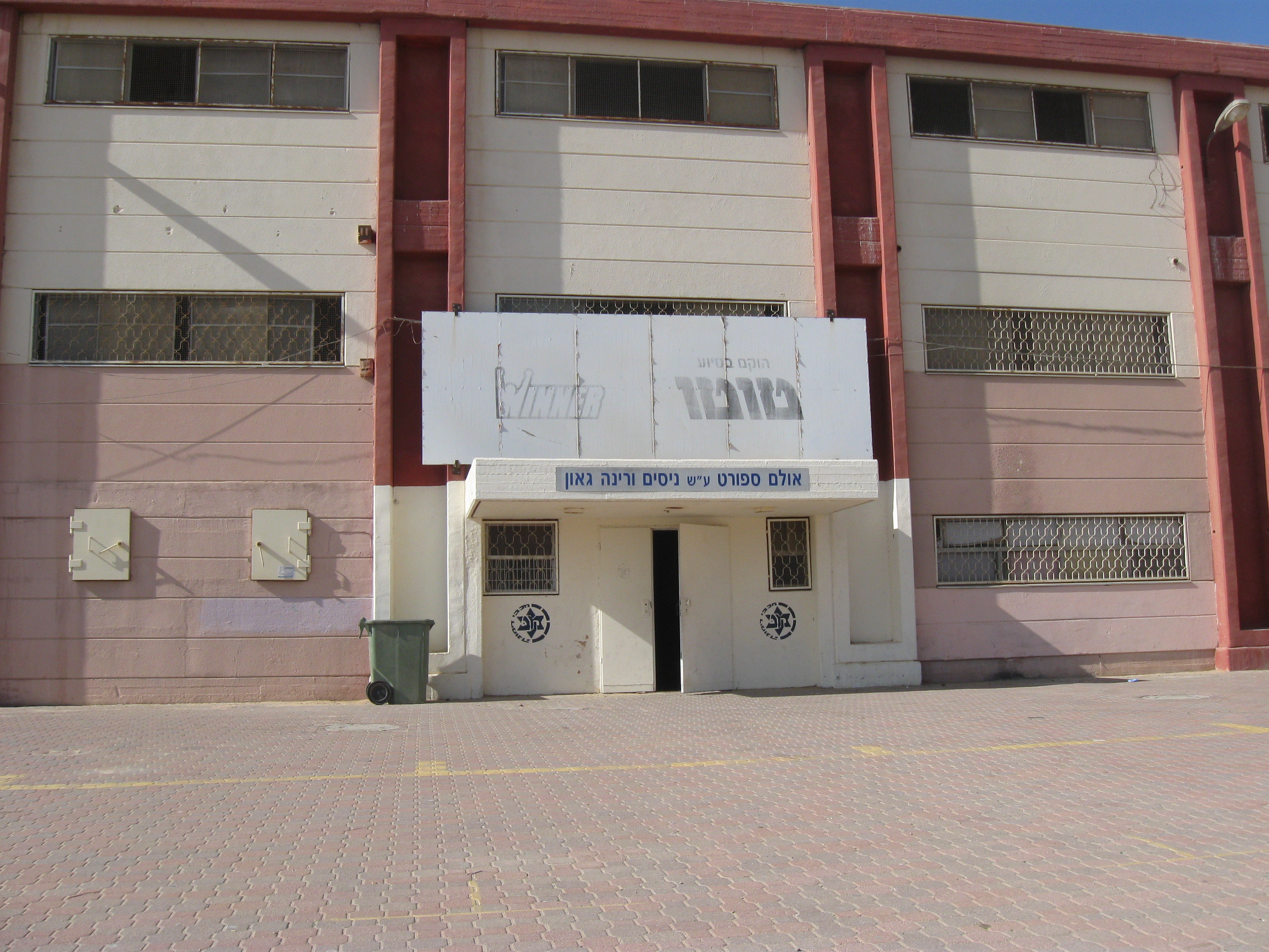 maccabi dimona sport hall